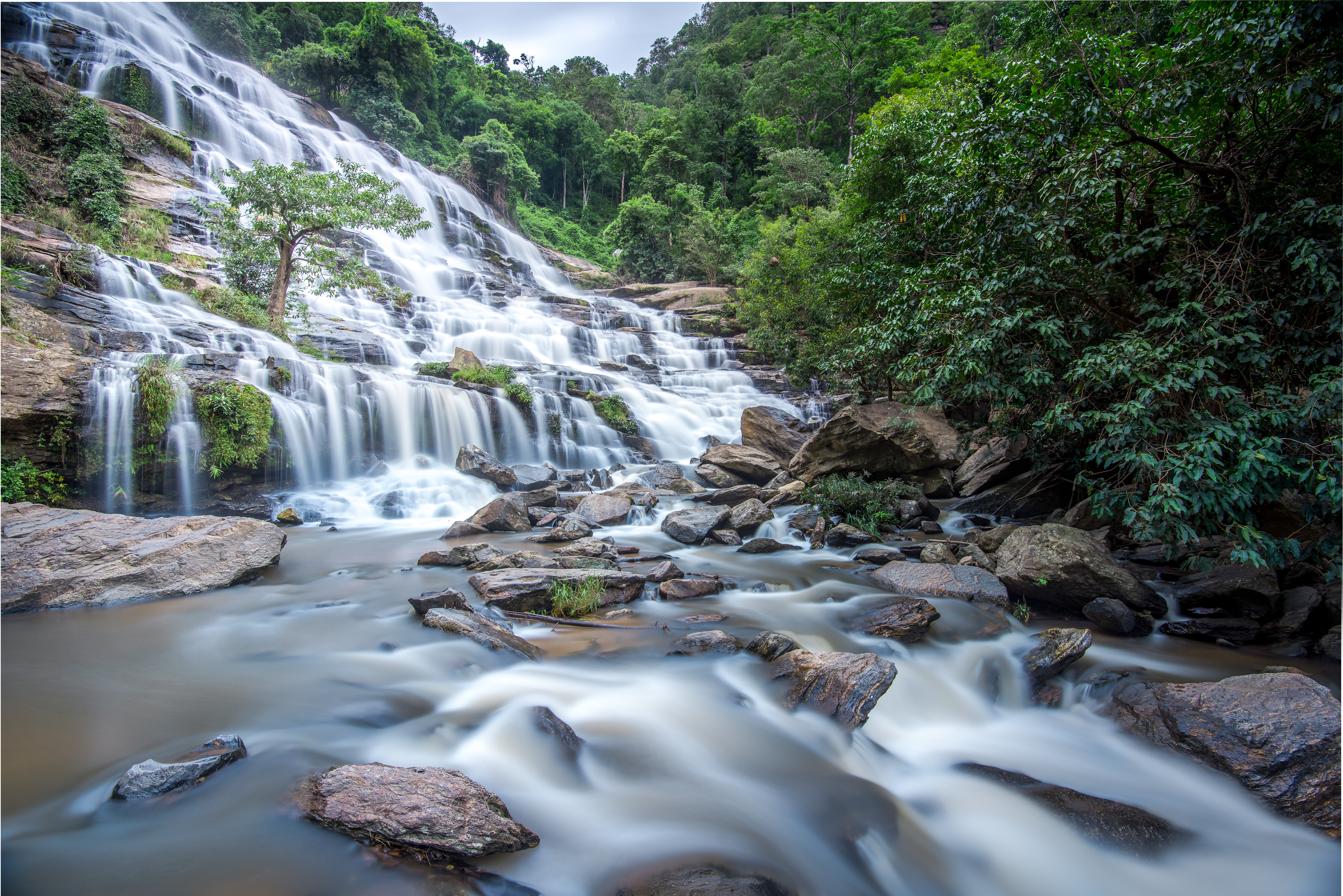 Mae Ya Waterfall in Doi Inthanon National Park.